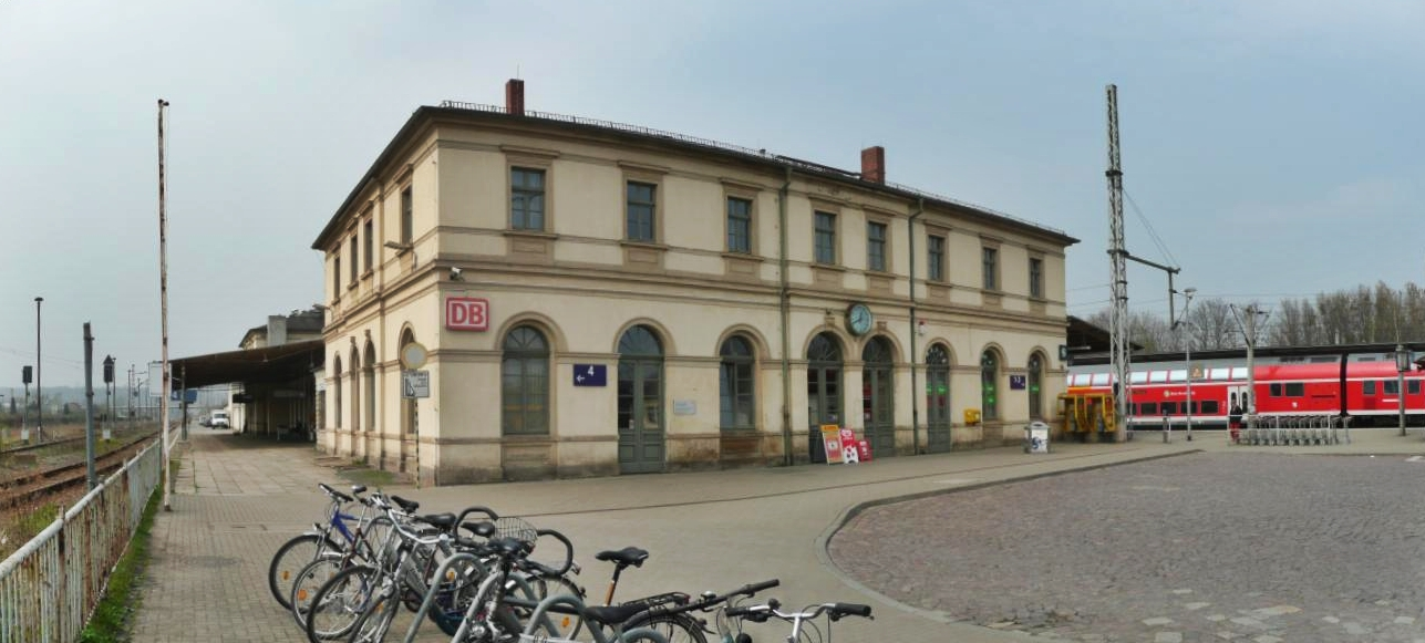 this image shows the railway station in Pirna.